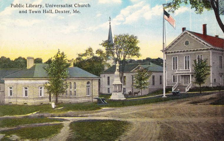 Public Library, Universalist Church and Town Hall, Dexter, Maine